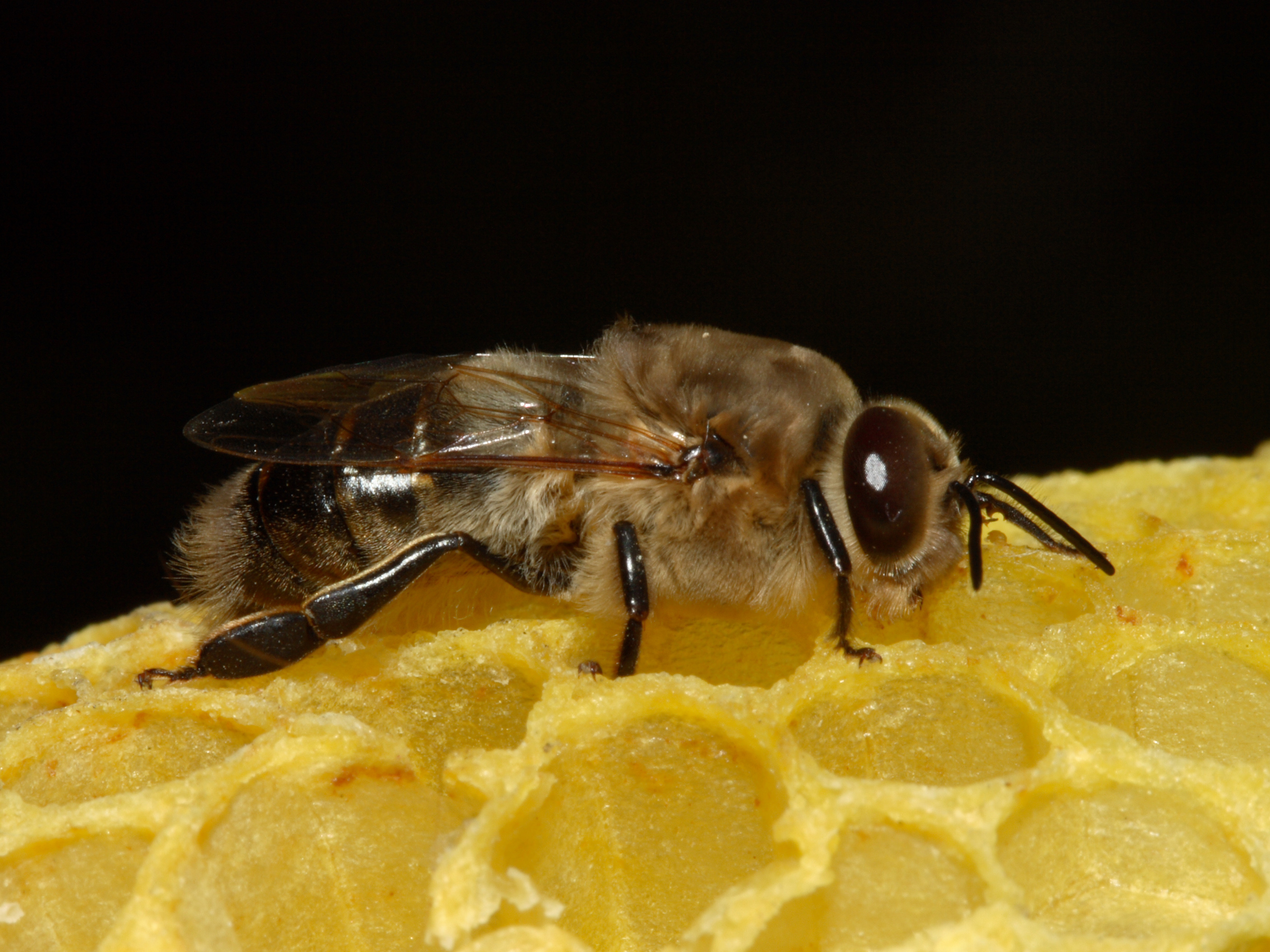 Drone (honeybee)